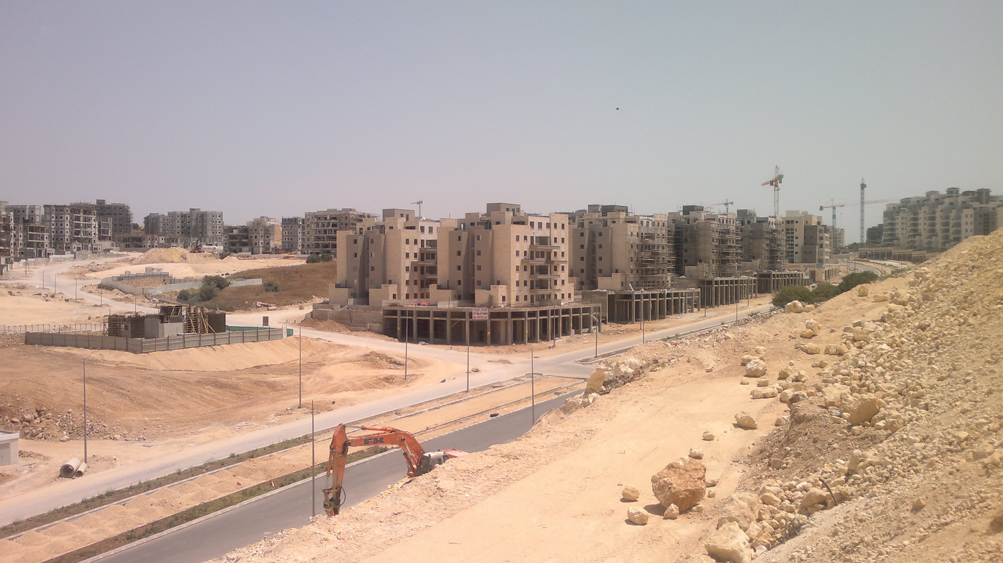 Construction of Harish as of April 2016